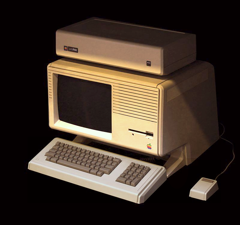 Apple Lisa 2 computer. On display at the Musée Bolo